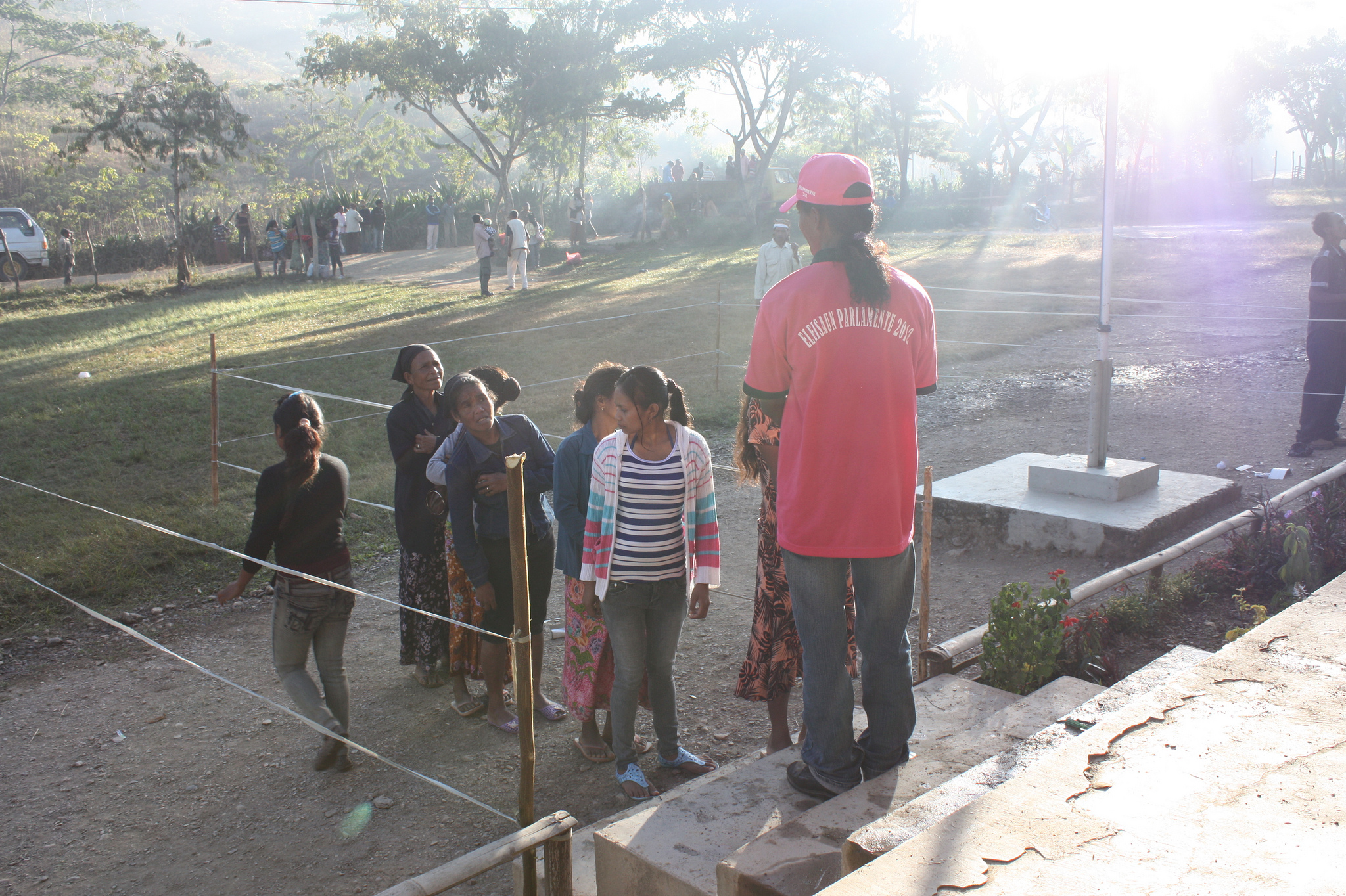 Timor-Leste Election Day: Polling Center in Estado, District Ermera